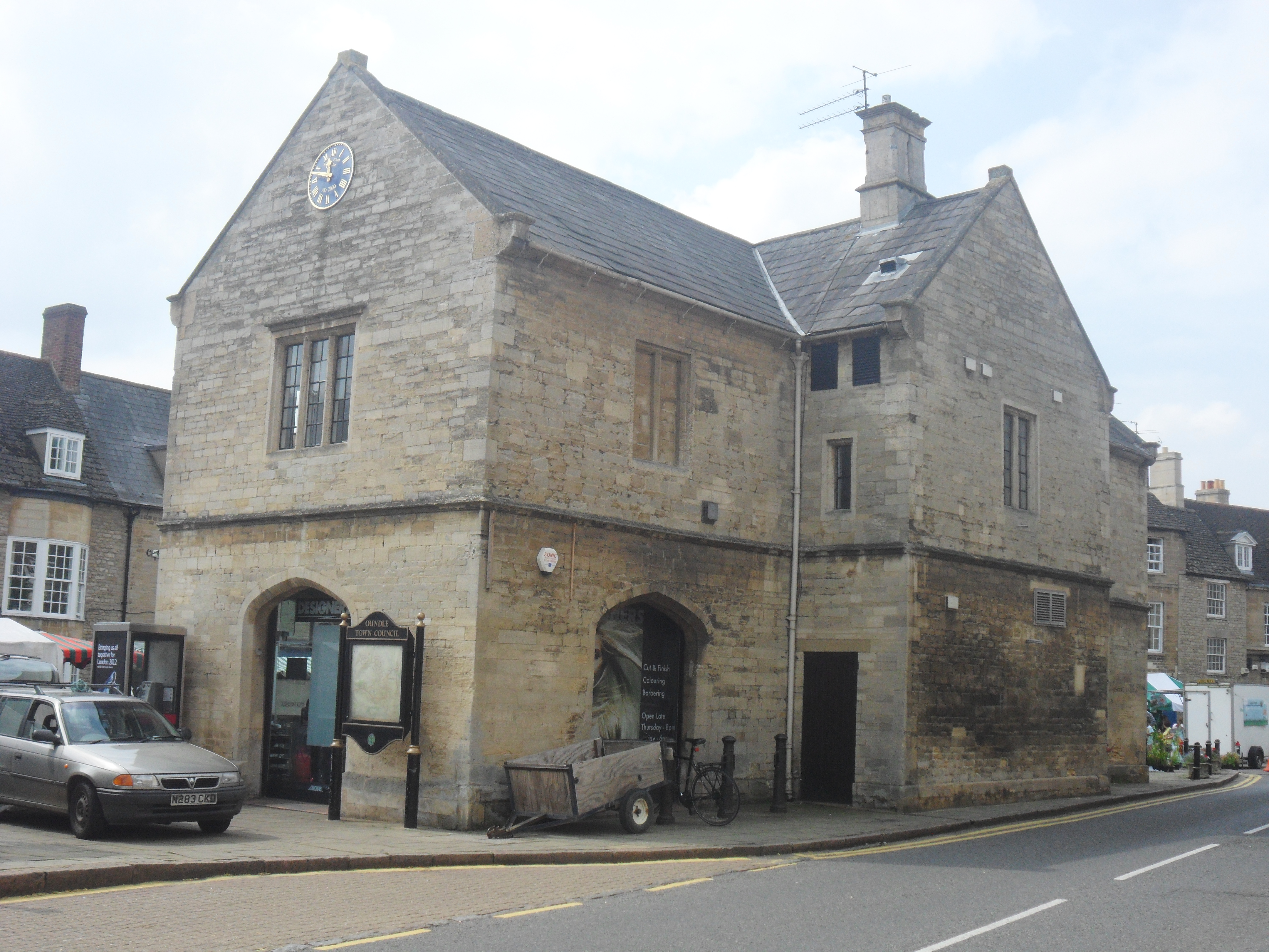 Oundle Town Hall